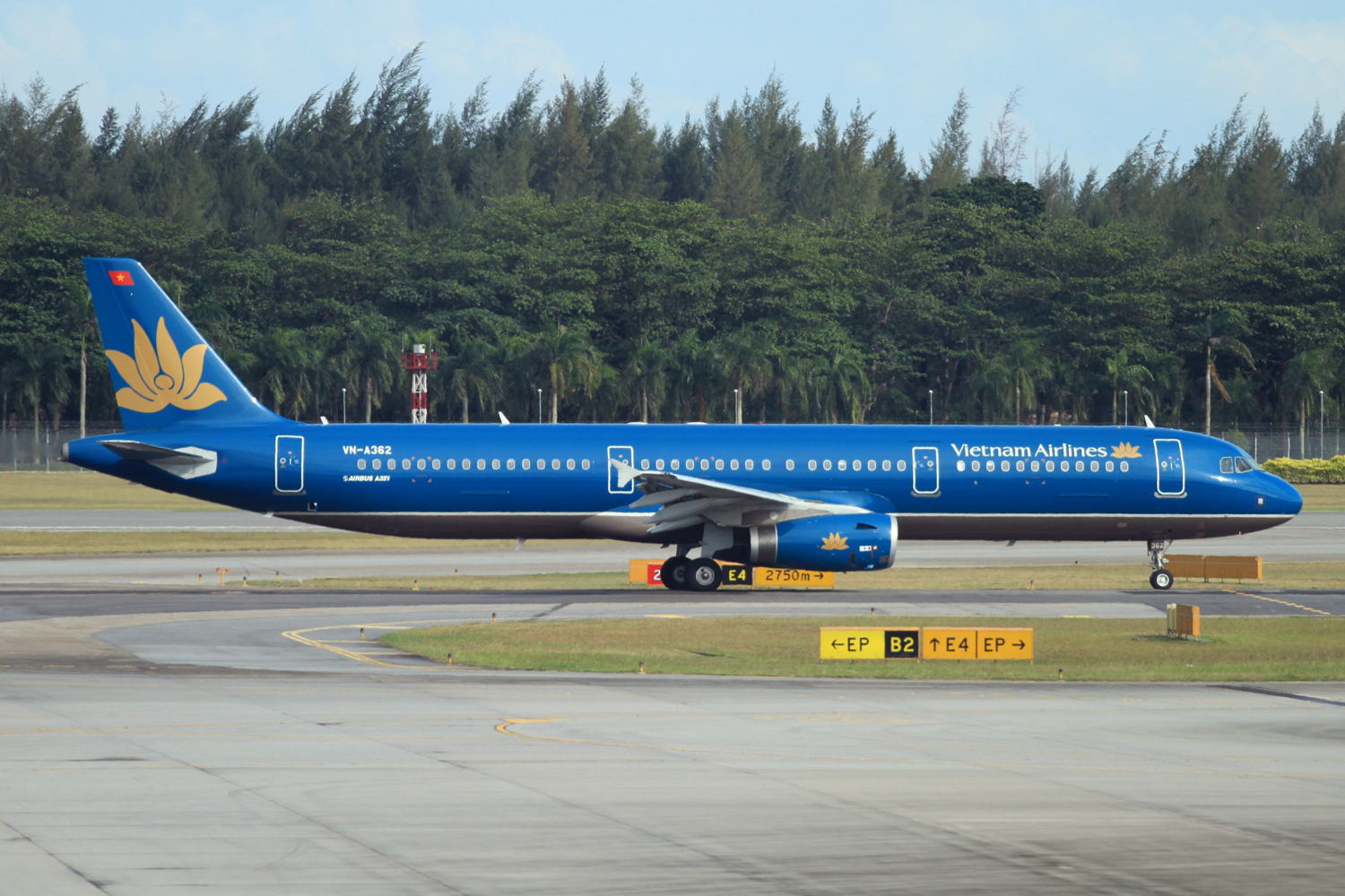 Singapore Changi Airport, Airbus A321-231, c/n:3966, Vietnam Airlines